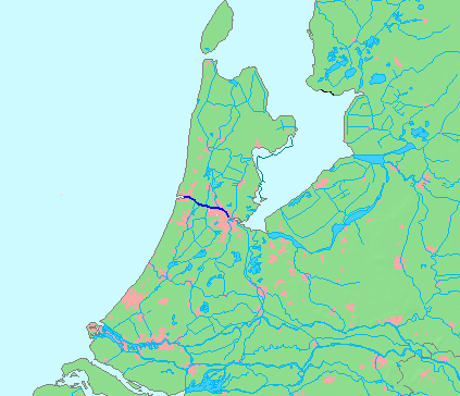 Location of a waterway (river/canal) in the Netherlends